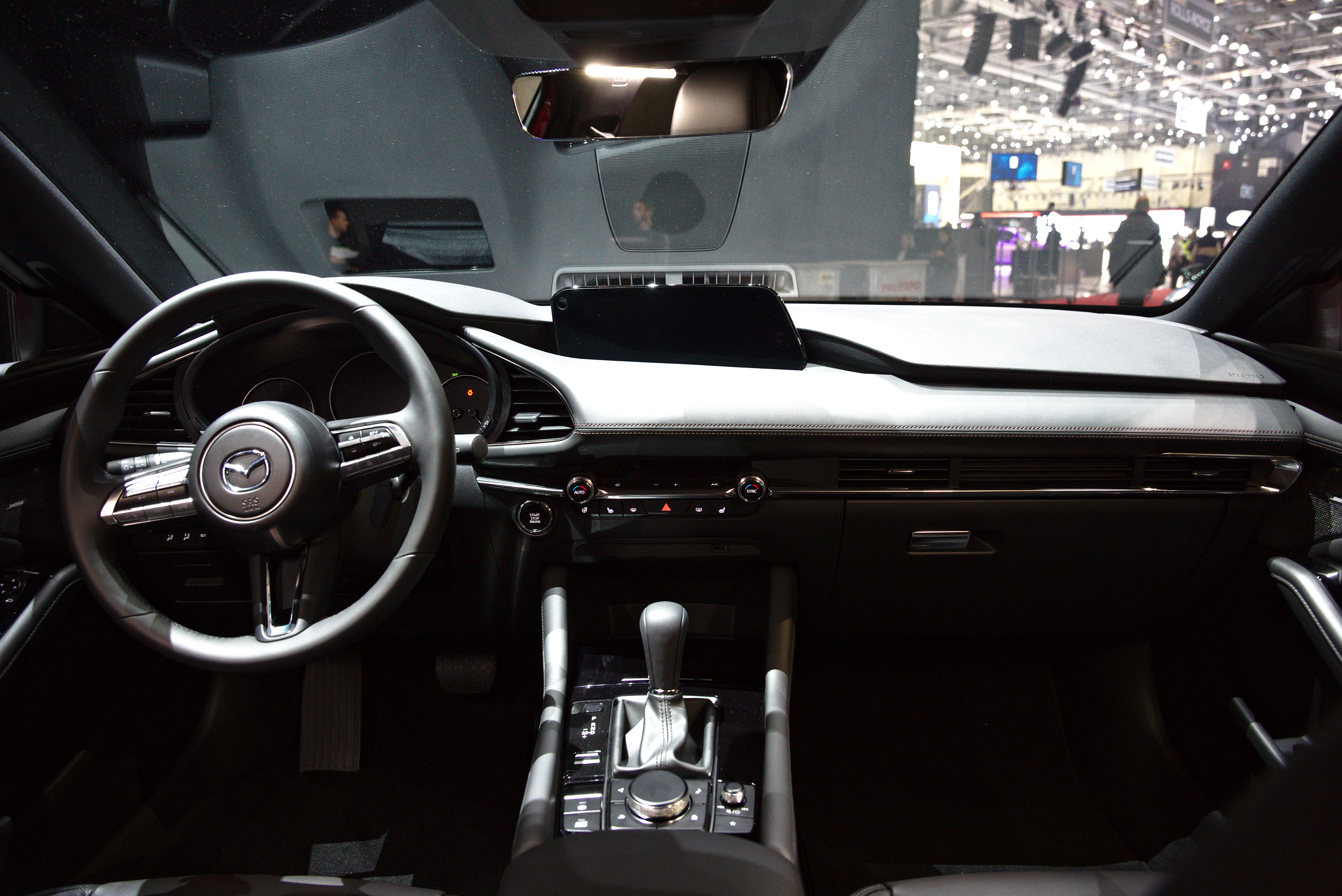 Mazda 3 at Geneva Motor Show 2019